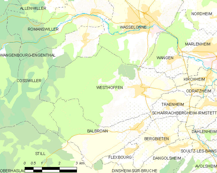 Map of French municipality